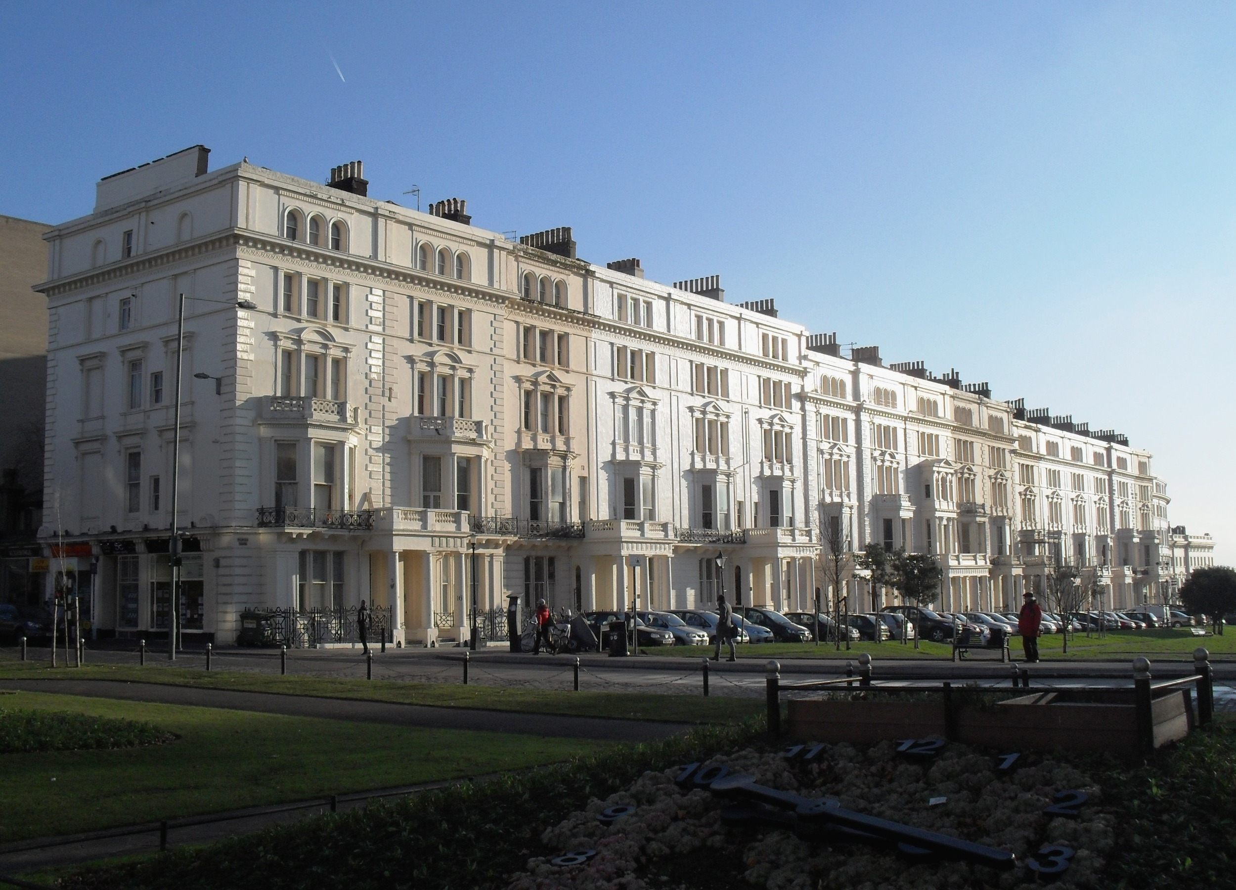 1–17 Palmeira Square, Hove, City of Brighton and Hove, England. Built in the 1850s and 1860s; this is the east side of the square. Listed at Grade II by English Heritage (NHLE Code 1298646)